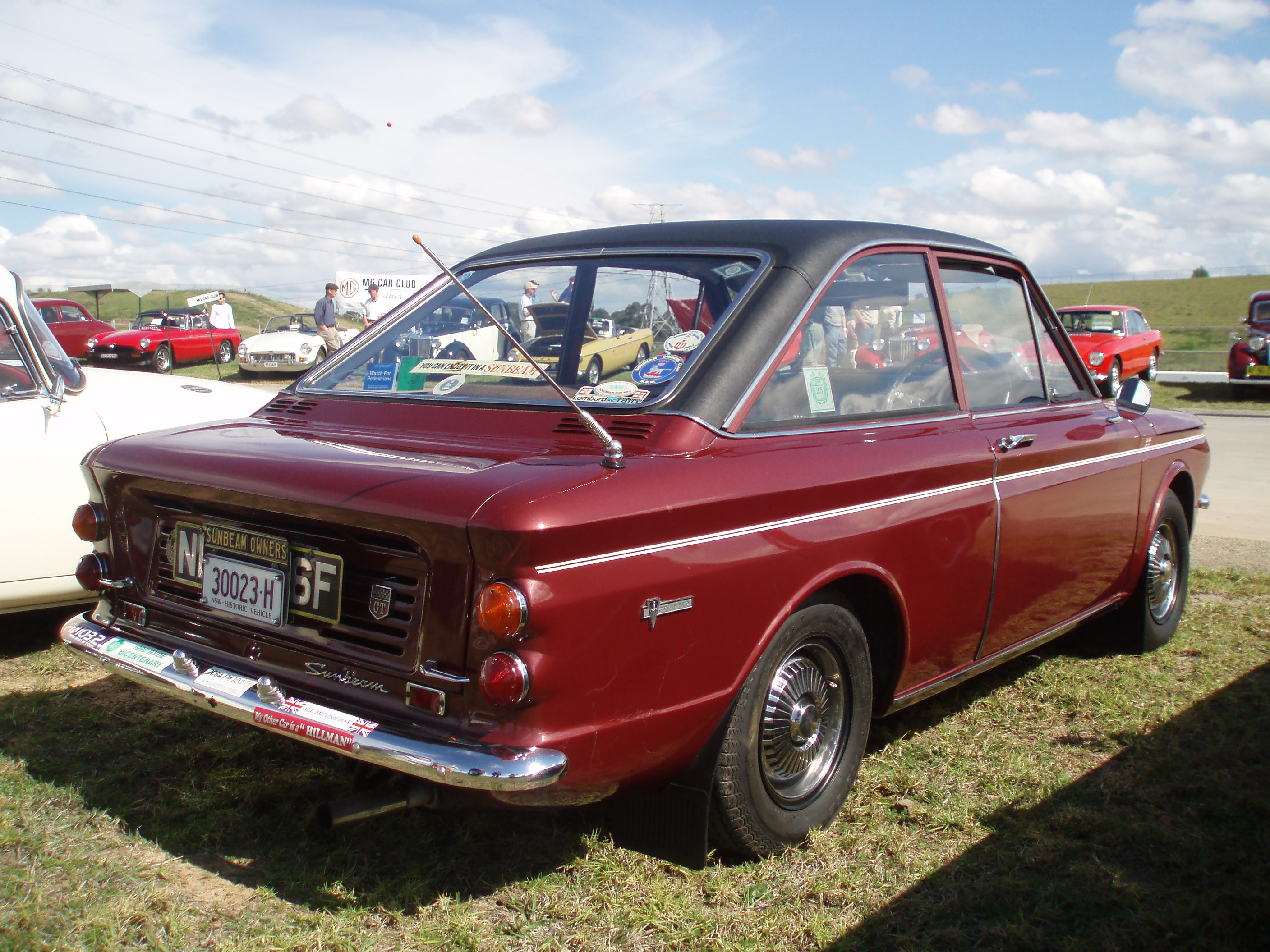 1967 Sunbeam Stiletto GT coupe. Upmarket sports version of the Rootes Group's Hillman Imp. Taken at Shannon's Eastern Creek Classic 2006, held at Eastern Creek Raceway Sydney.